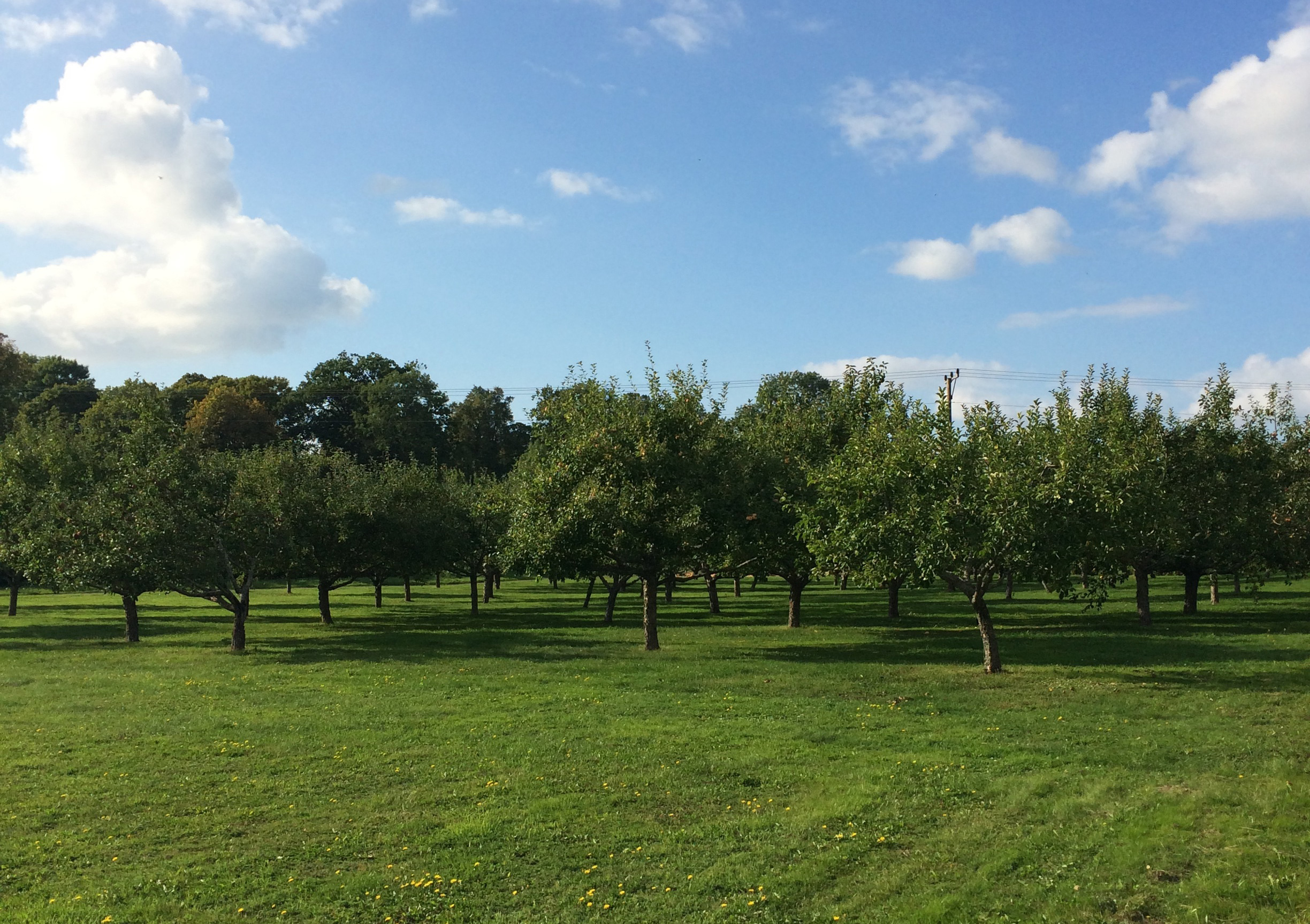 The apple orchard at Julita gård.